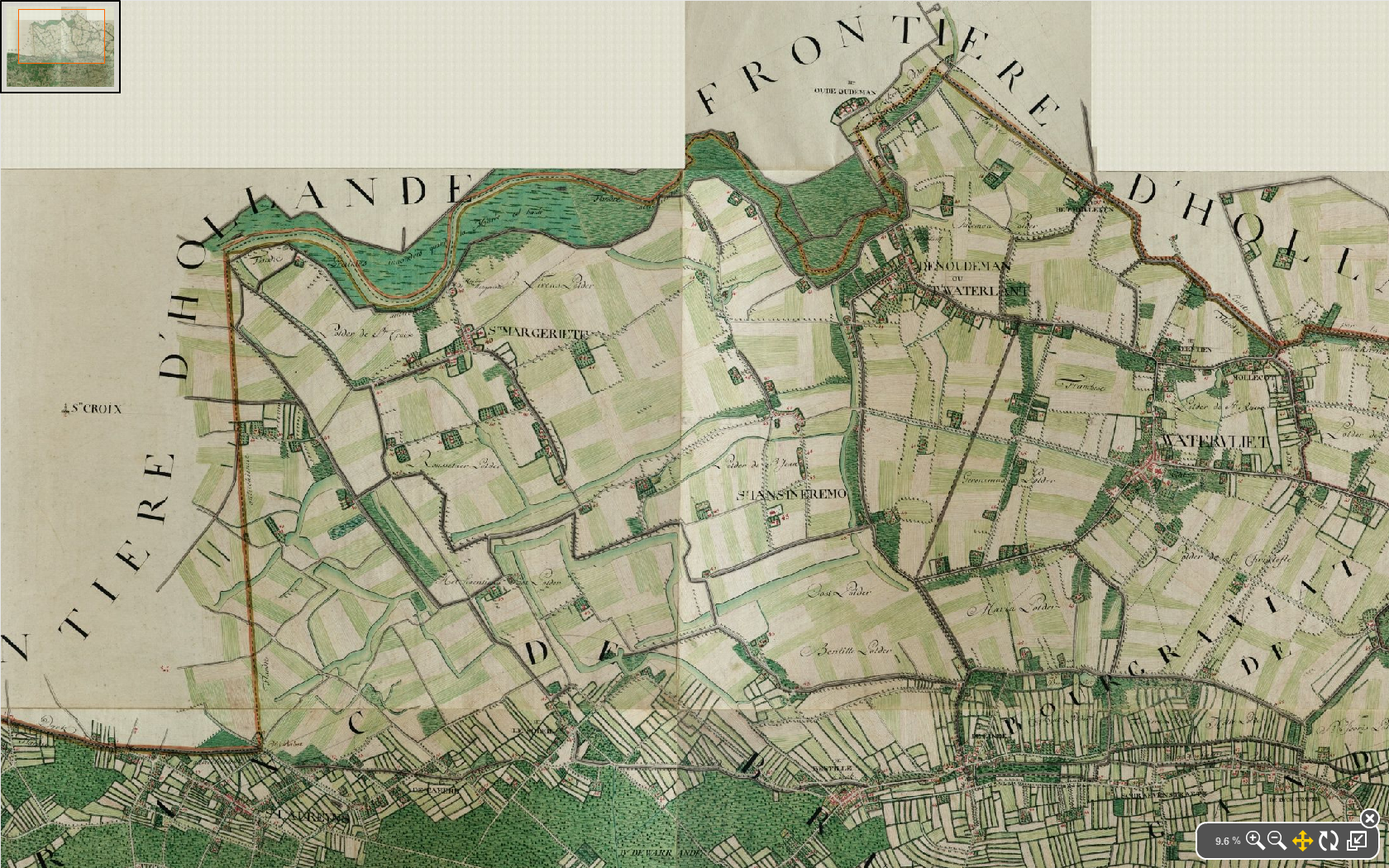 Meetjeslandse_kreken,_Belgium,_Ferrariskaart.png